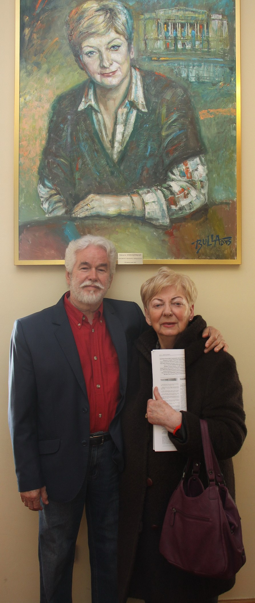 Ignacy Bulla & E Horendalska with her portrait